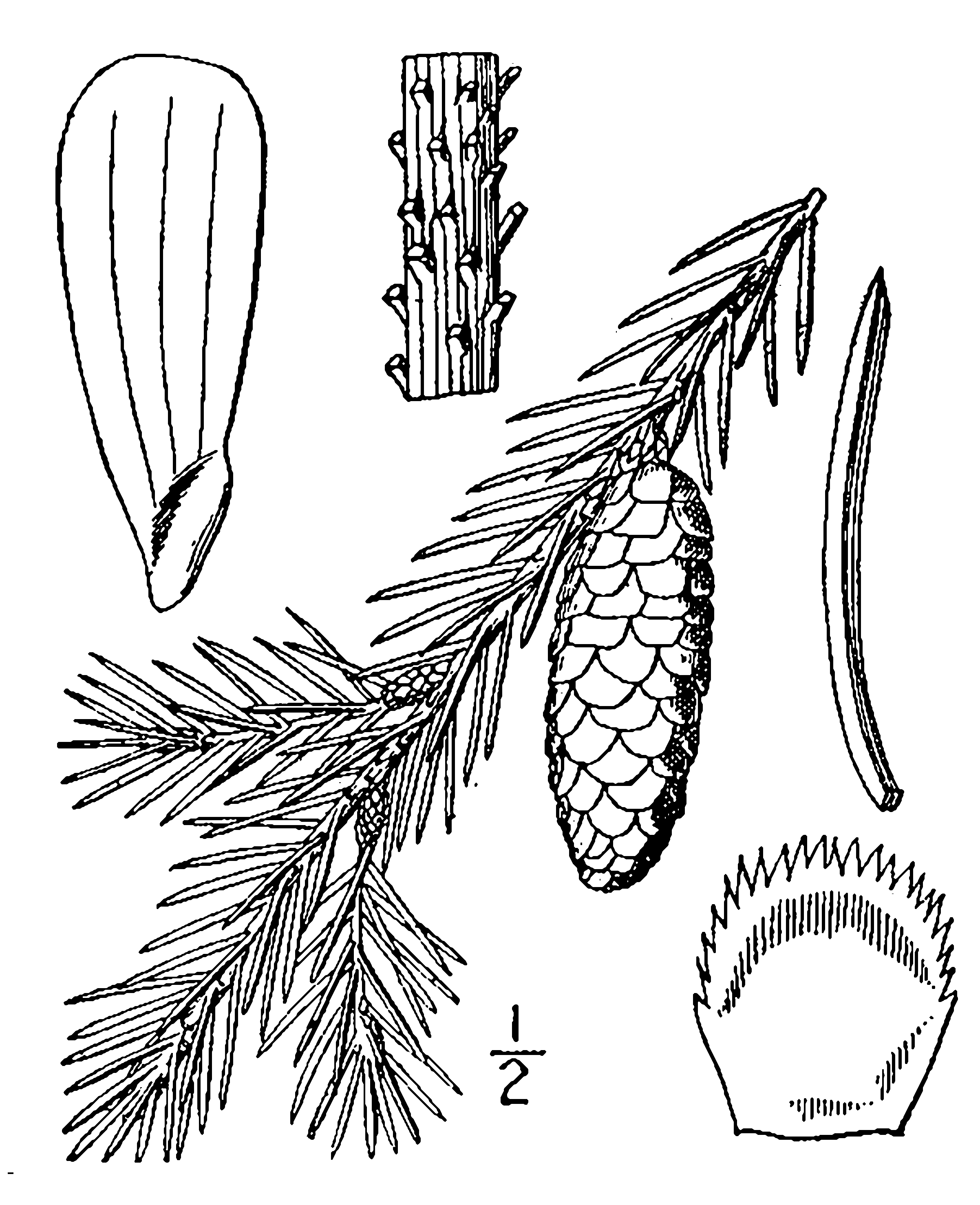 White Spruce. Drawing.